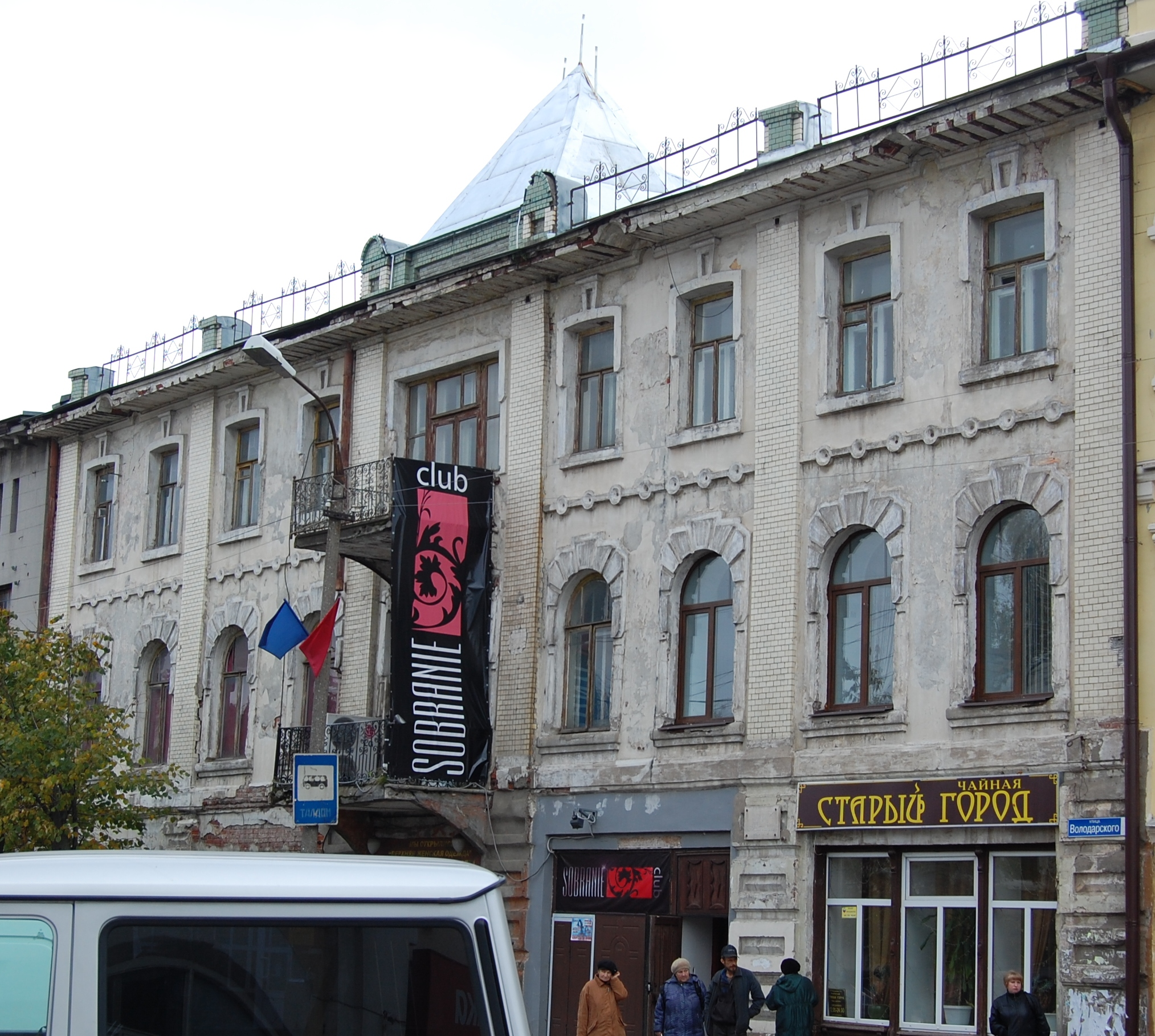 Zaytsev house in Kimry, Tver oblast